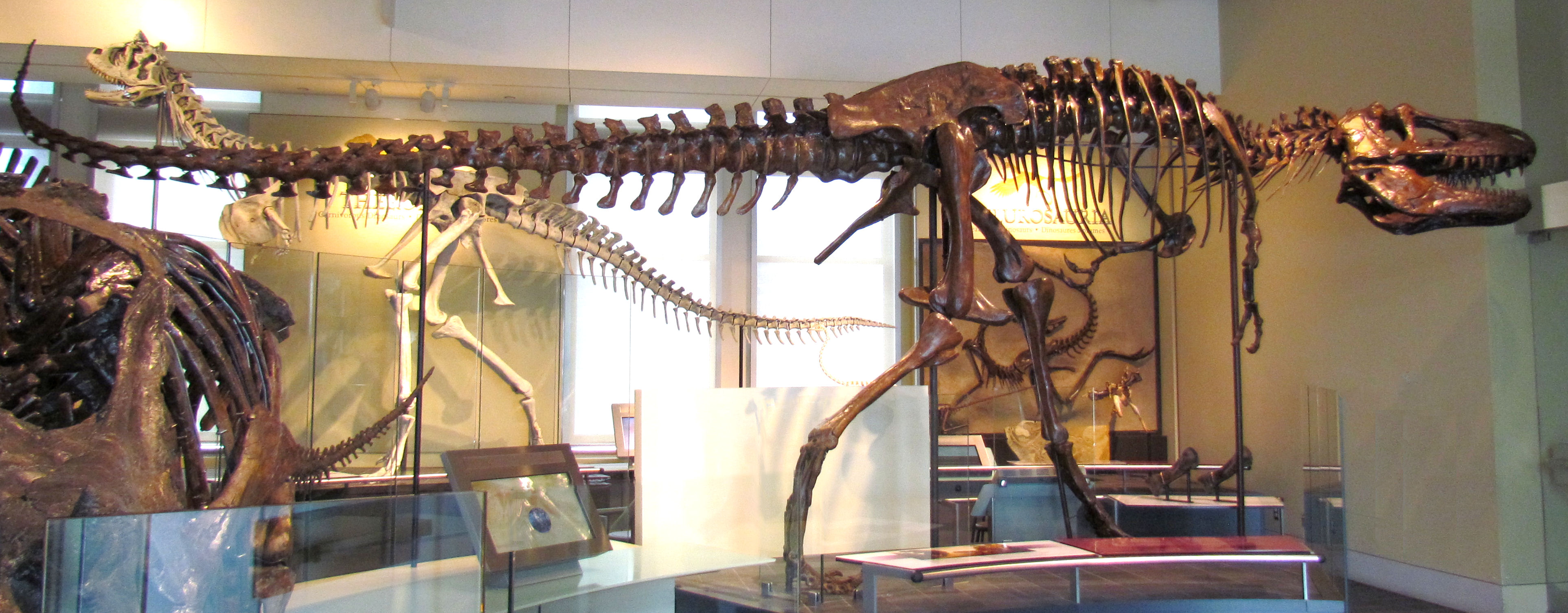 Daspletosaurus torosus, holotype CMN 8506, Canadian Museum of Nature, Ottawa